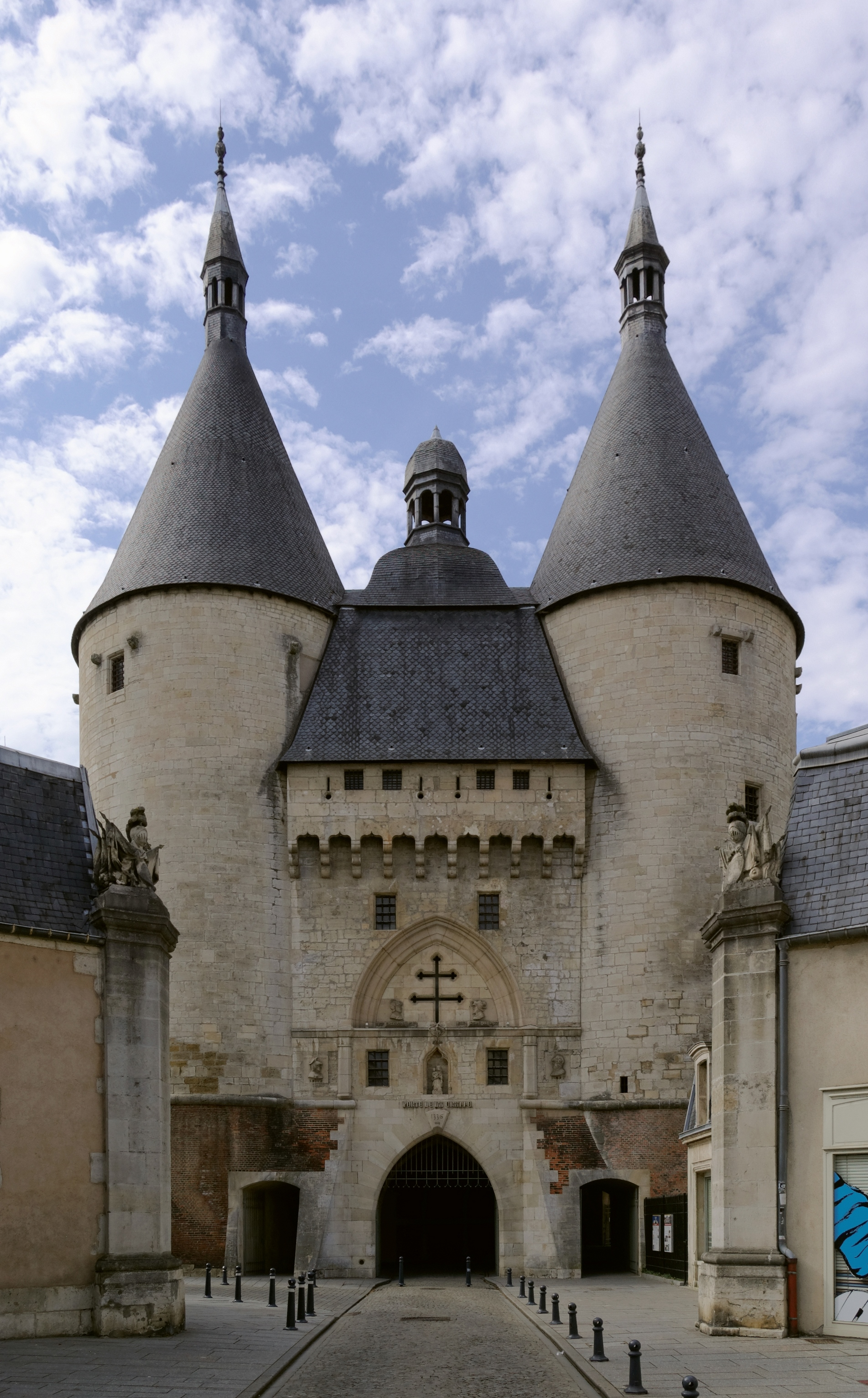 France, Nancy, Porte de la Craffe